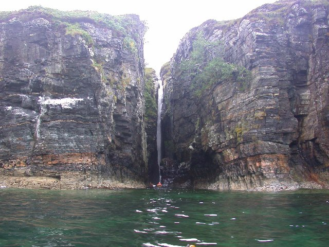 Waterfall on South Coast of Rum. Large waterfall in box canyon of South Coast of Rum.